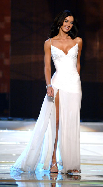 On stage during Miss Universe 2005 competition